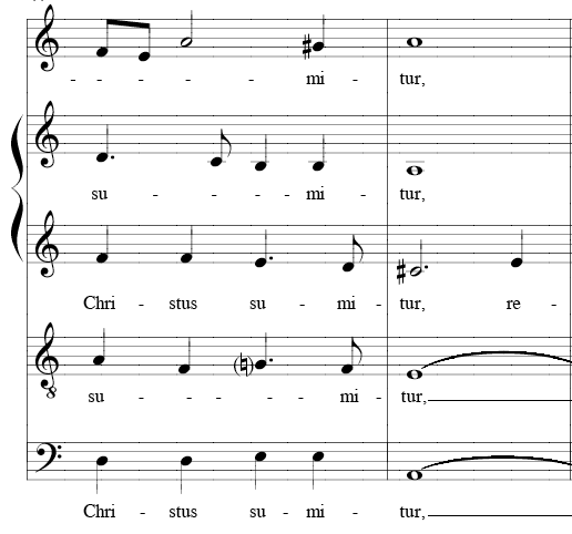 Excerpt of Thomas Tallis's O Sacrum Convivium, public domain edition from Choral Public Domain Library [1] See also: File:Tallis-sacrum.mid